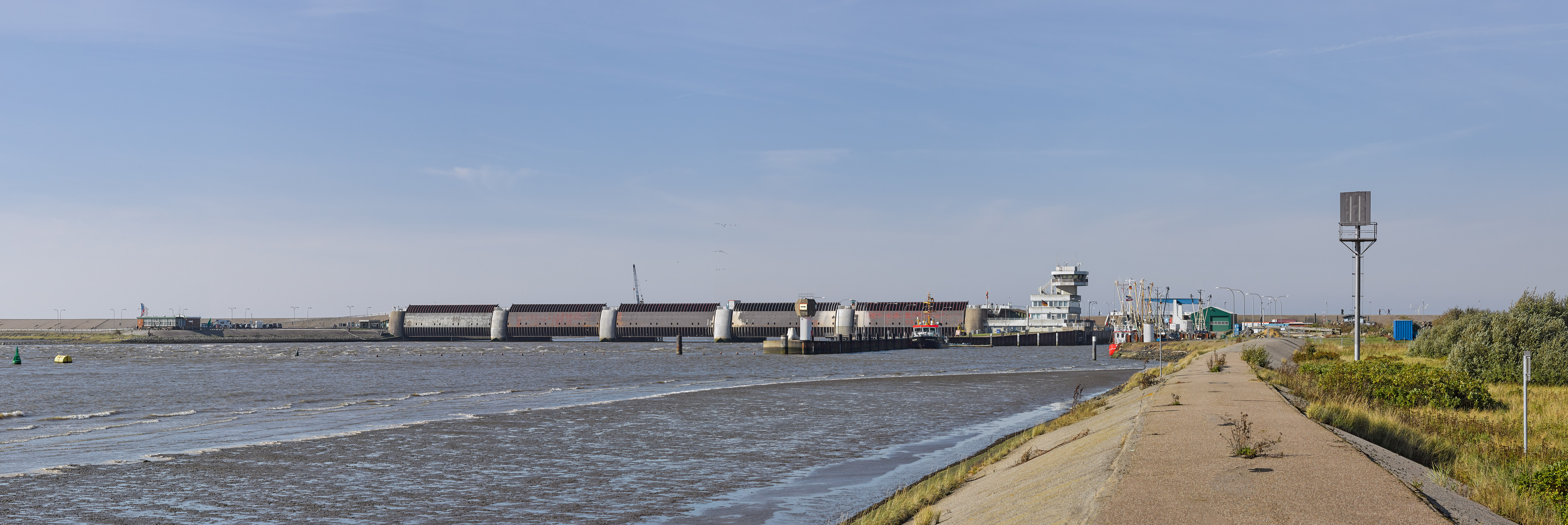 Eider Barrage The Eider Barrage (German: Eidersperrwerk) is located at the mouth of the river Eider near Tönning on Germany’s North Sea coast.